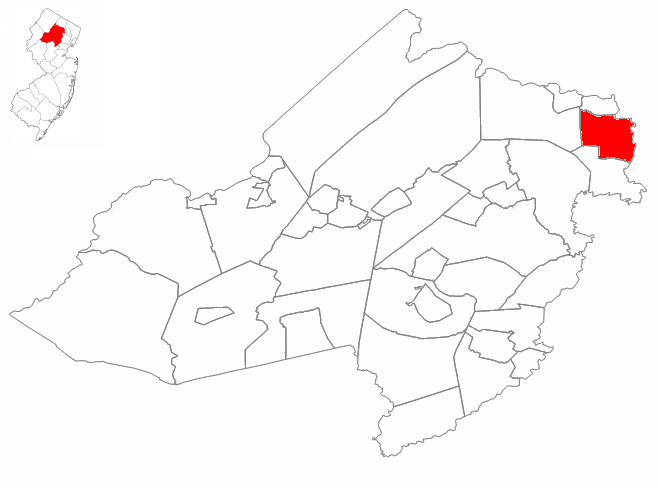 Position of Pequannock Township (highlighted in red) in Morris County. Morris County's position in New Jersey is in turn highlighted in red.